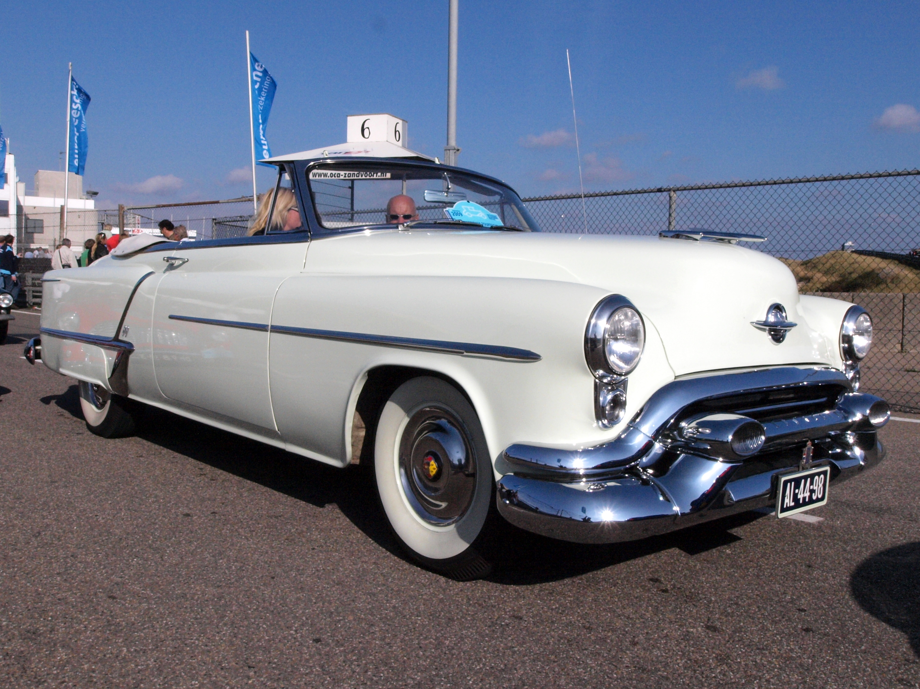 Photographed at the Nationaal Oldtimer Festival Zandvoort 2009, The Netherlands. OLYMPUS DIGITAL CAMERA